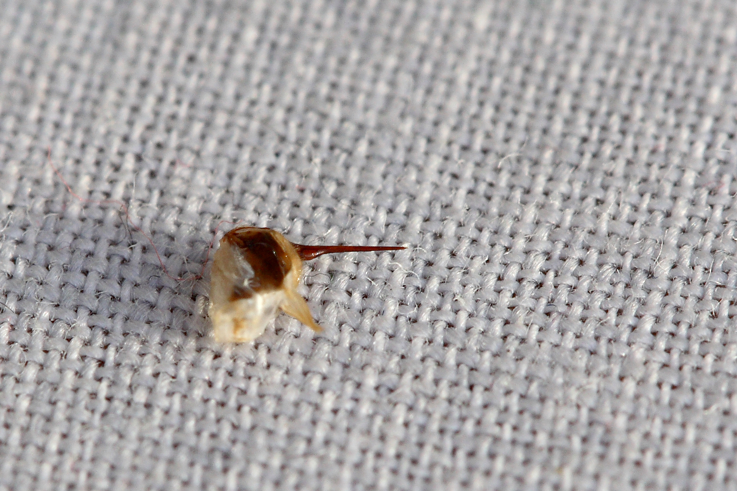 Stinger of a honey bee